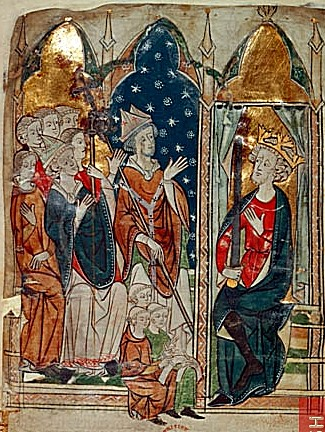 King Edward I seated with his court and clerks